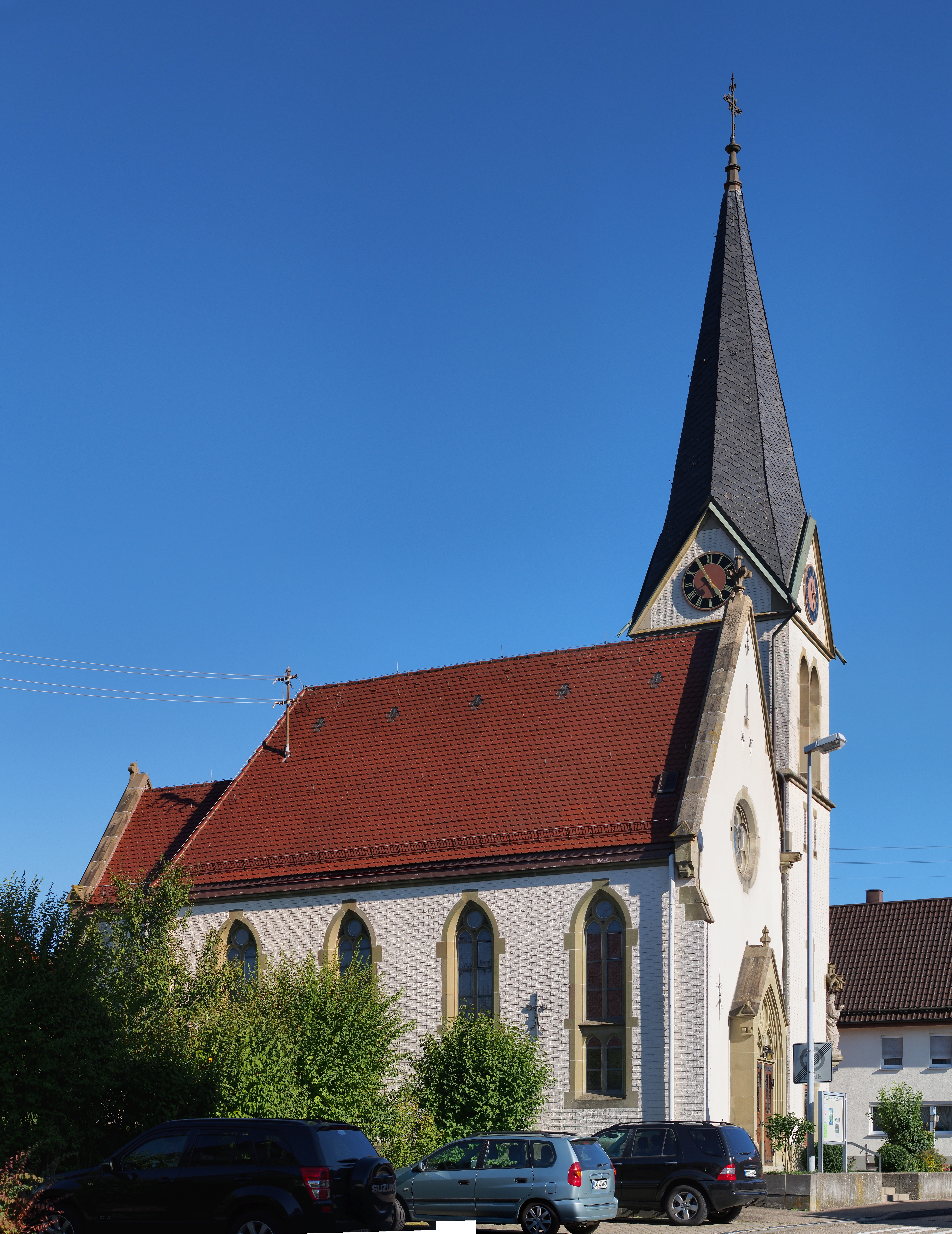 Protestant Church St. John, Göggingen, Germany, seen from the west